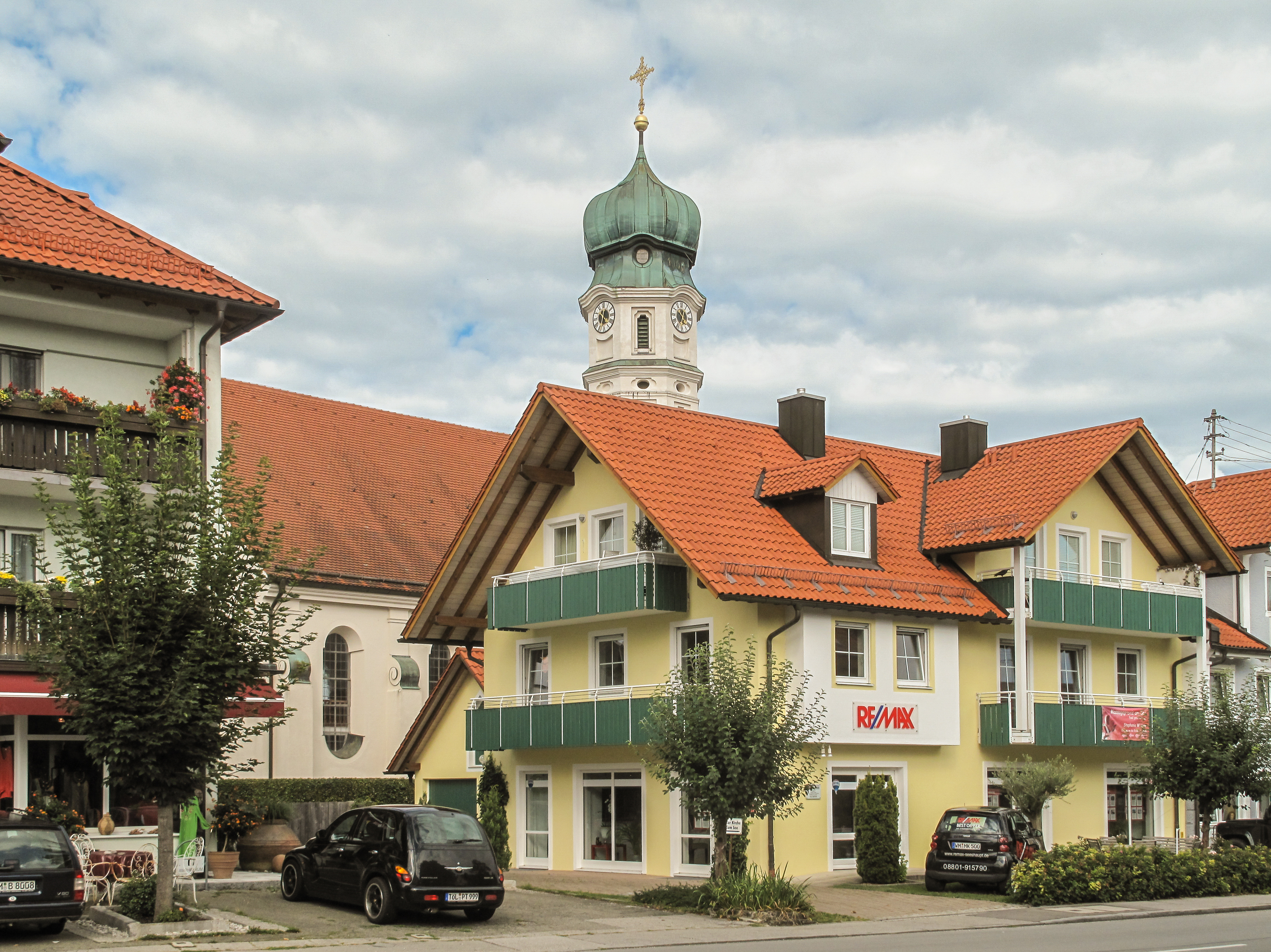 Seeshaupt, churchtower in the street